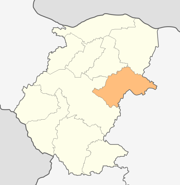 Map of Boychinovtsi municipality, Montana Province